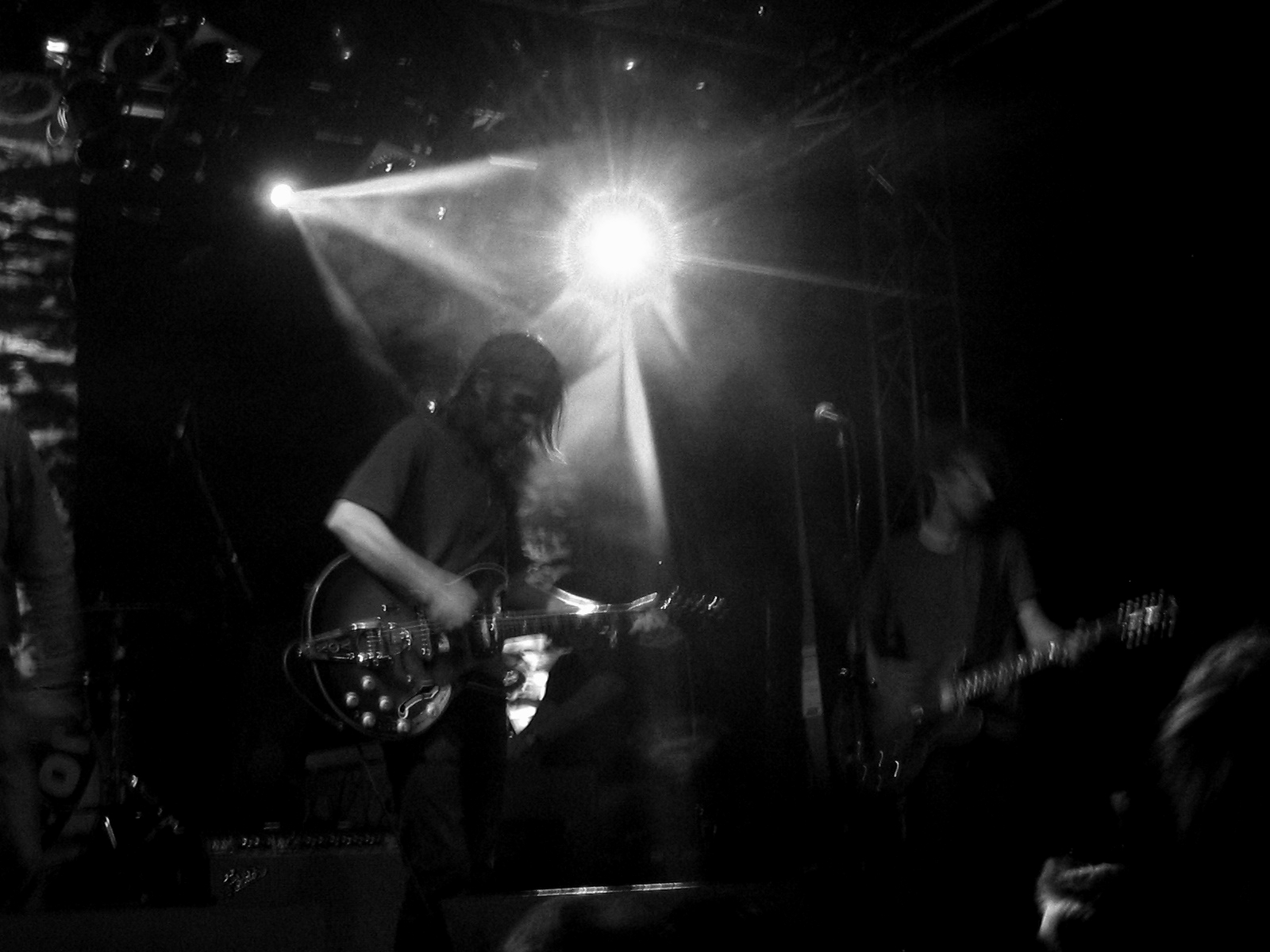 The Brian Jonestown Massacre